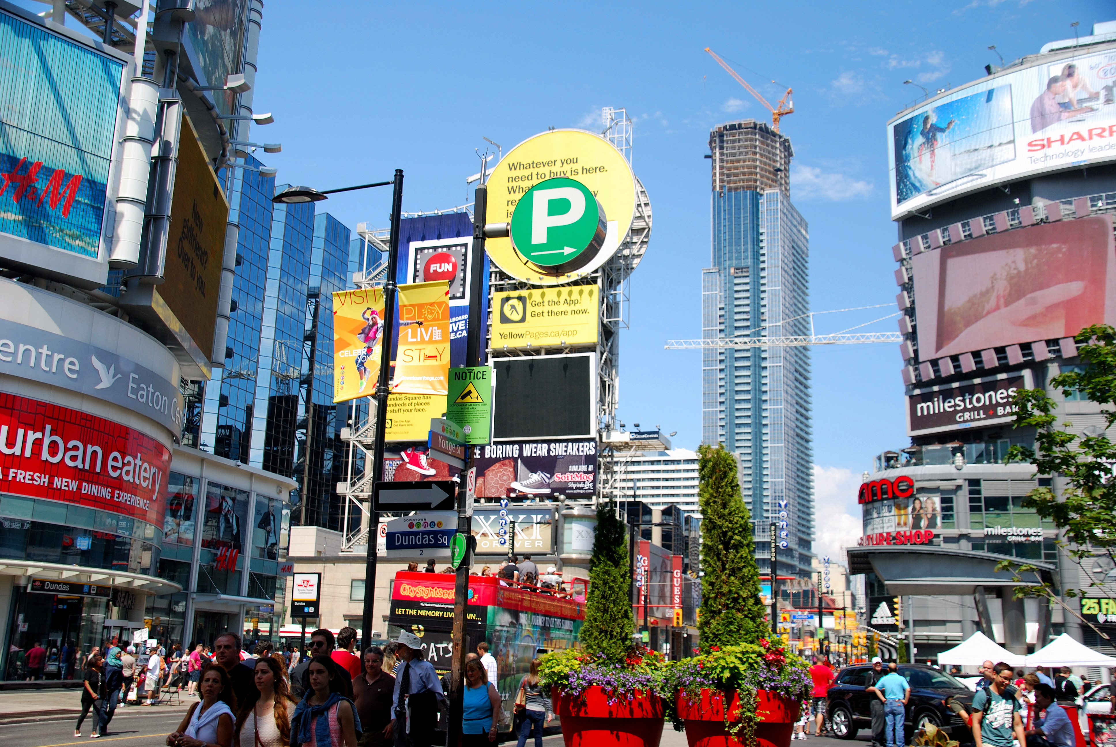 Toronto, Yonge-Dundas Square